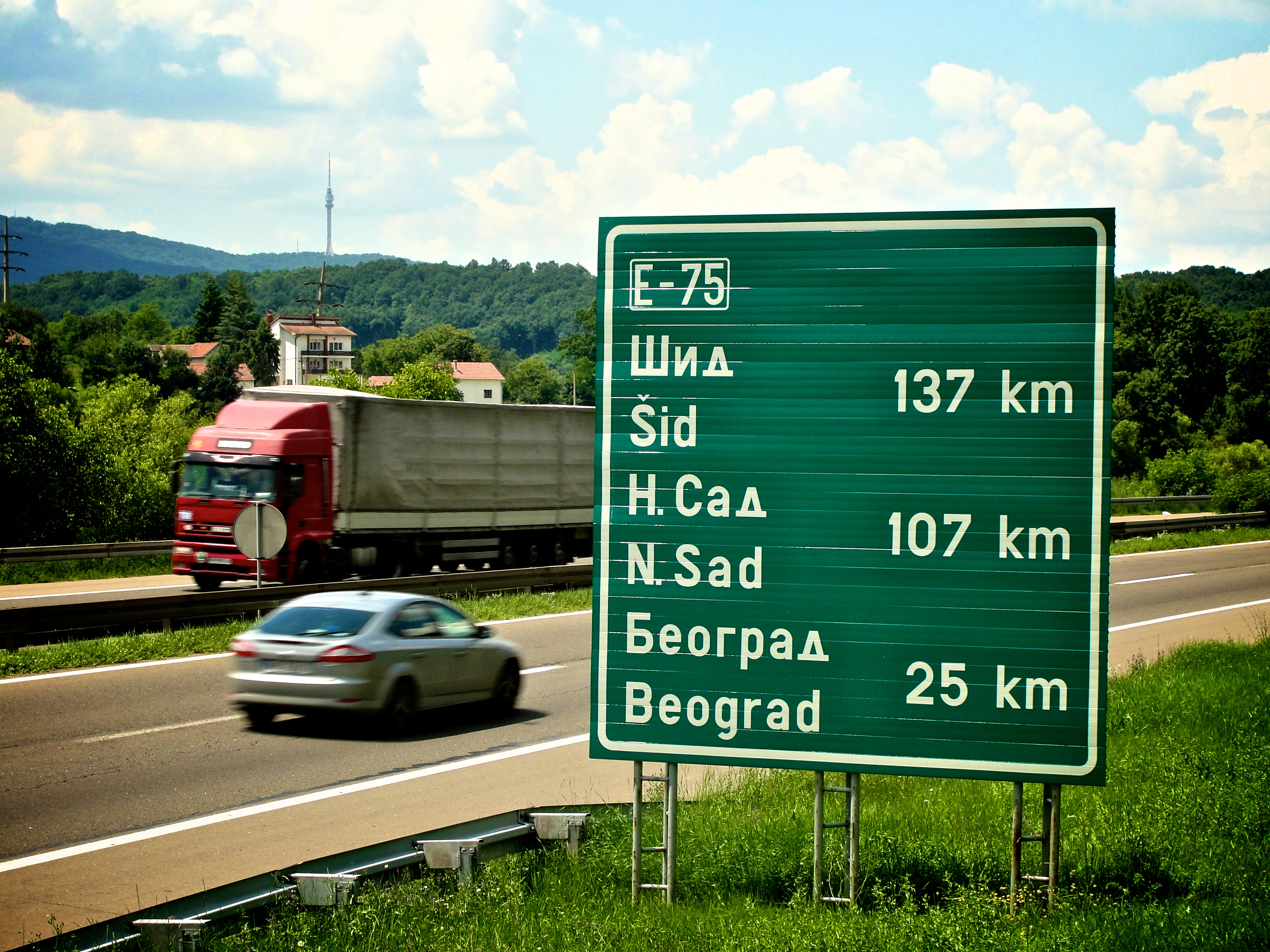 "Pretty scary today on the bike. I got on the auto route on my way back to Belgrade. Not smart because there are parts of the highway without a shoulder." Vrcin, Belgrade, Serbia